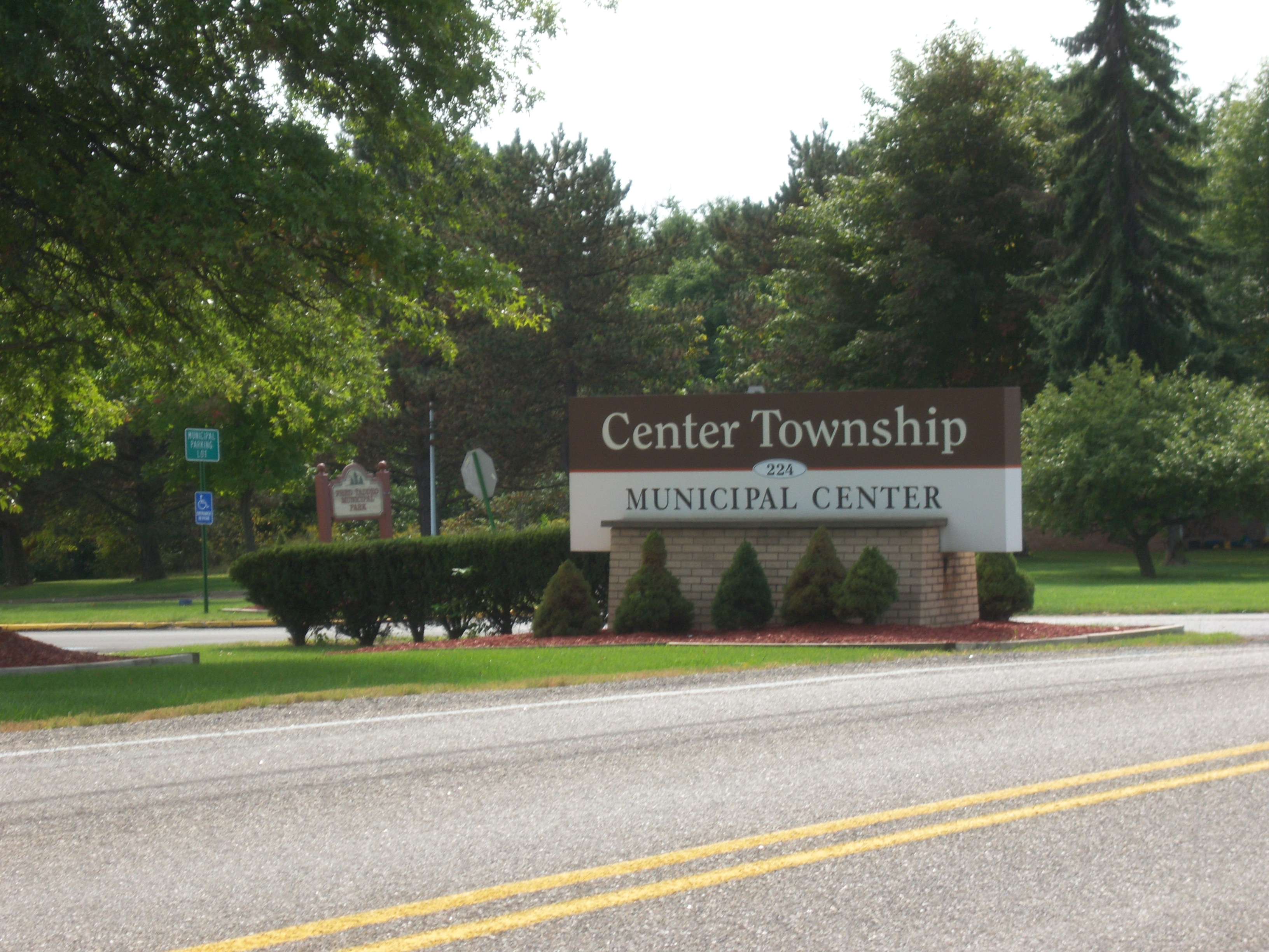 Sign of Center Township Municipal Center